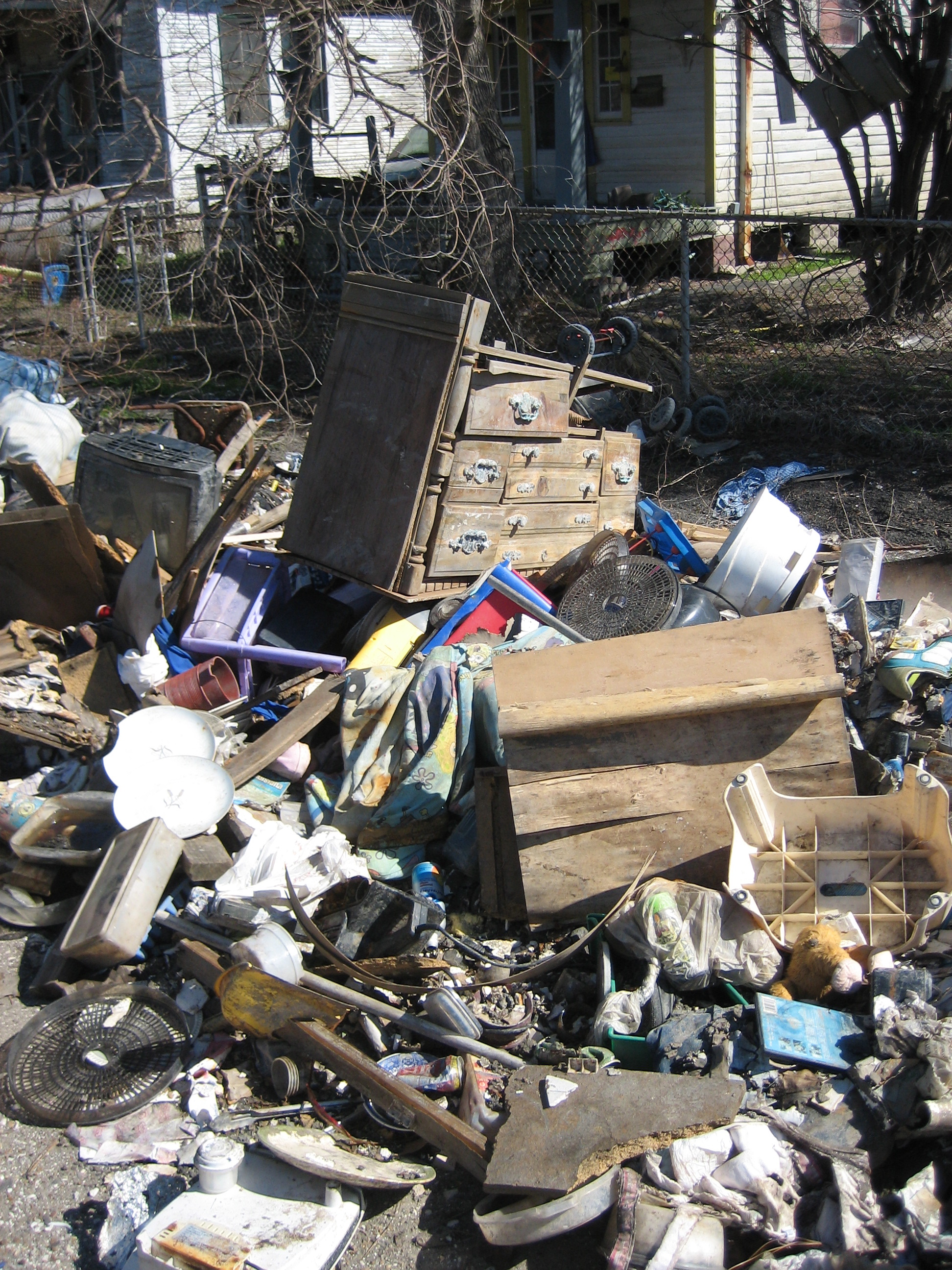 New Orleans after Hurricane Katrina: Trashed possessions piled in front of house in the formerly flooded Lower 9th Ward. Photo by Infrogmation